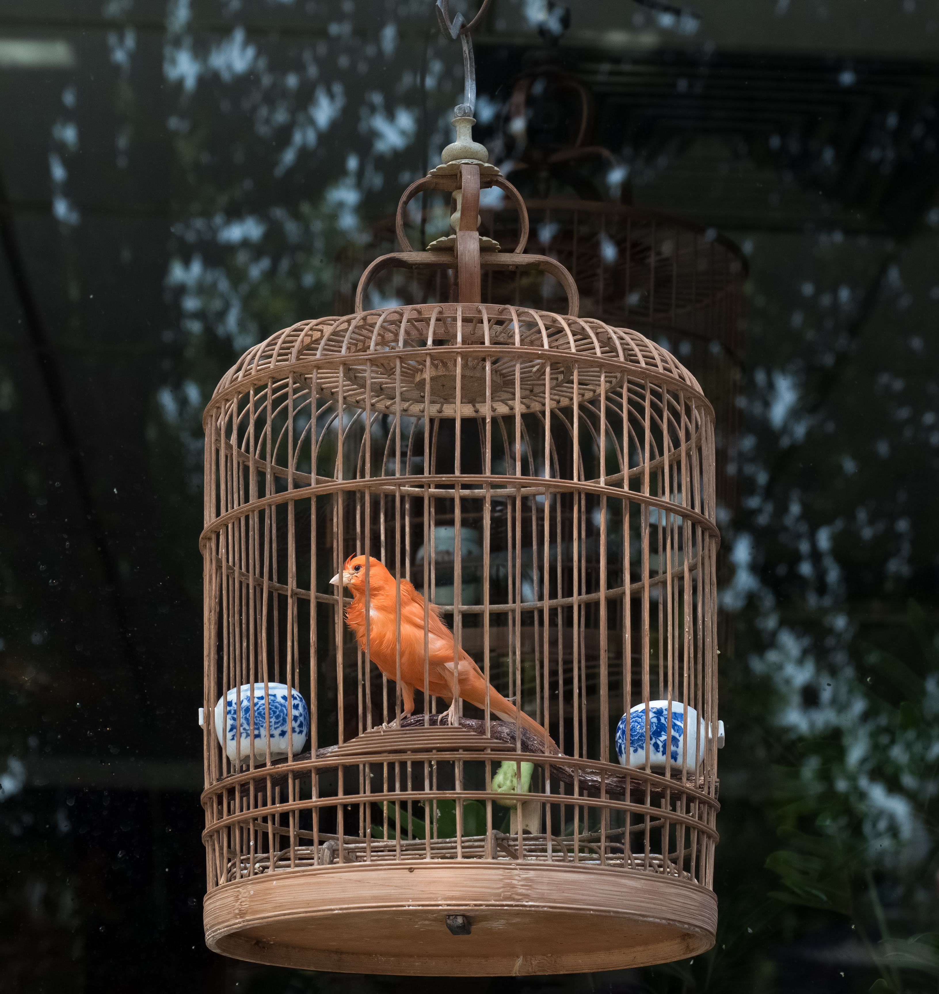 Canary in Tianjin